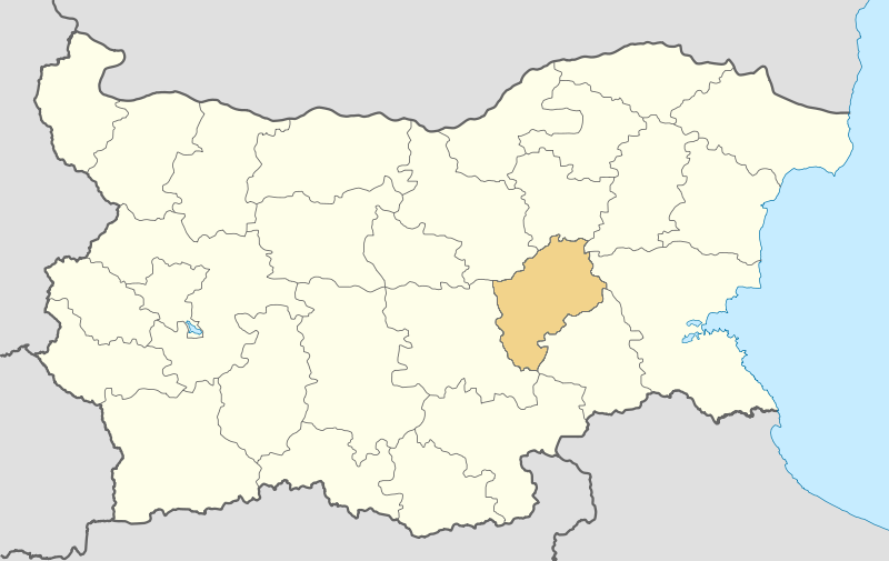 Location map of Bulgaria Equirectangular projection, N/S stretching 130 %. Geographic limits of the map: * N: 44.4° N * S: 41.1° N * W: 22.1° E * E: 28.9° E